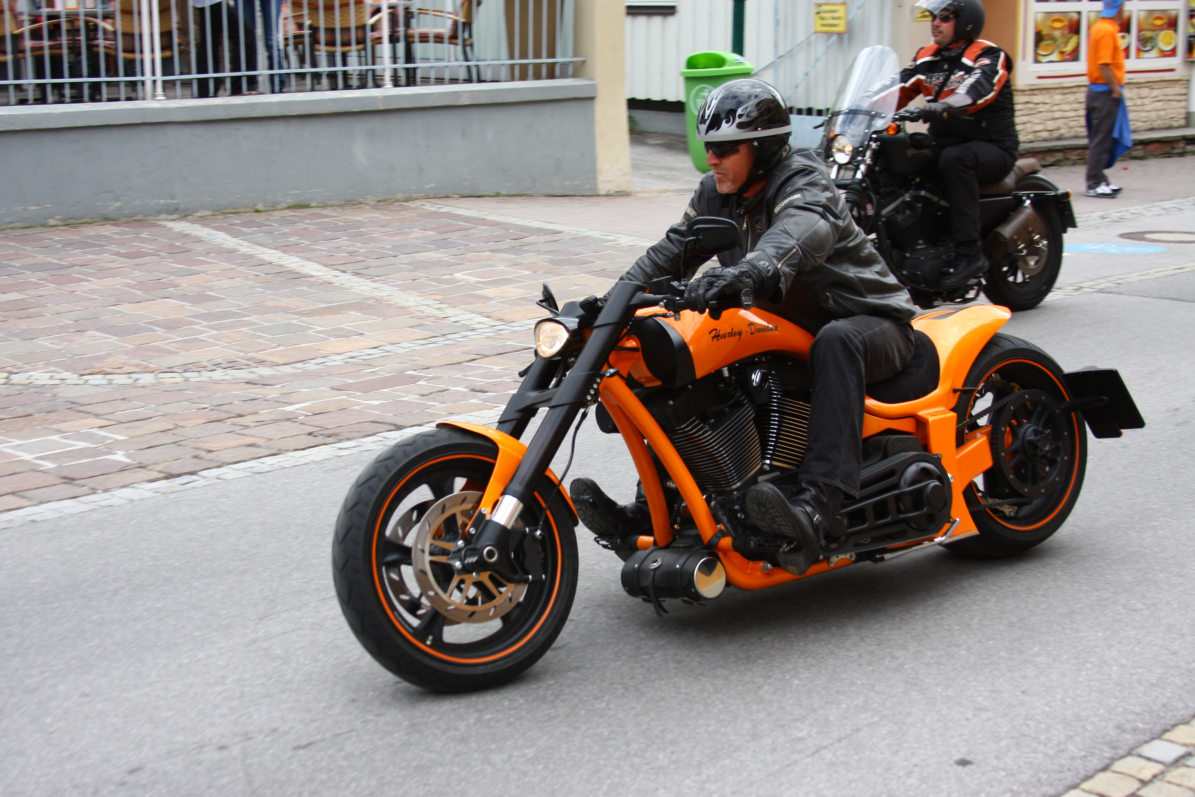 Rock the Roof 2013, Schladming, Styria, Austria